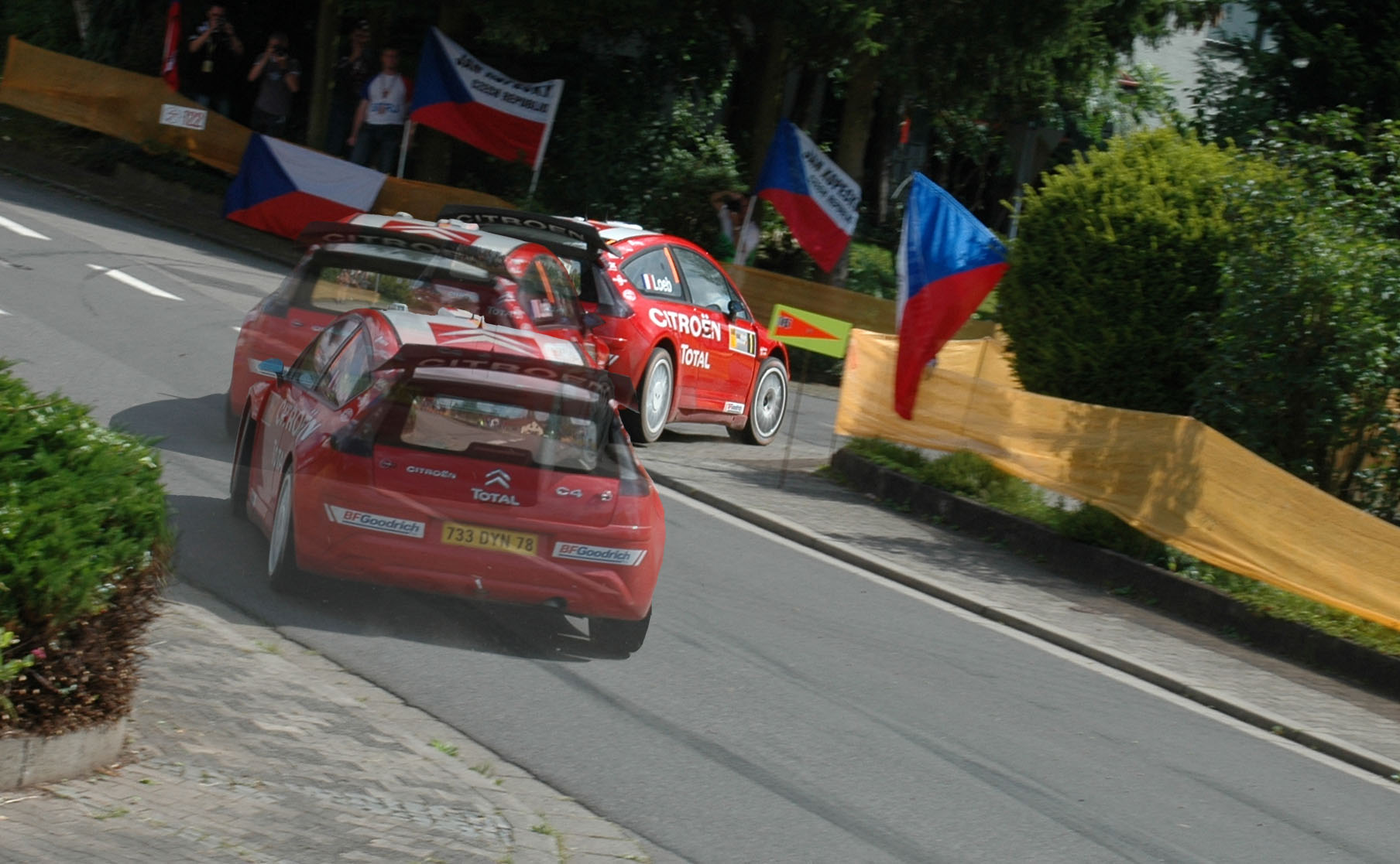 Sébastien Loeb driving his Citroën C4 WRC at the 2007 Rallye Deutschland.